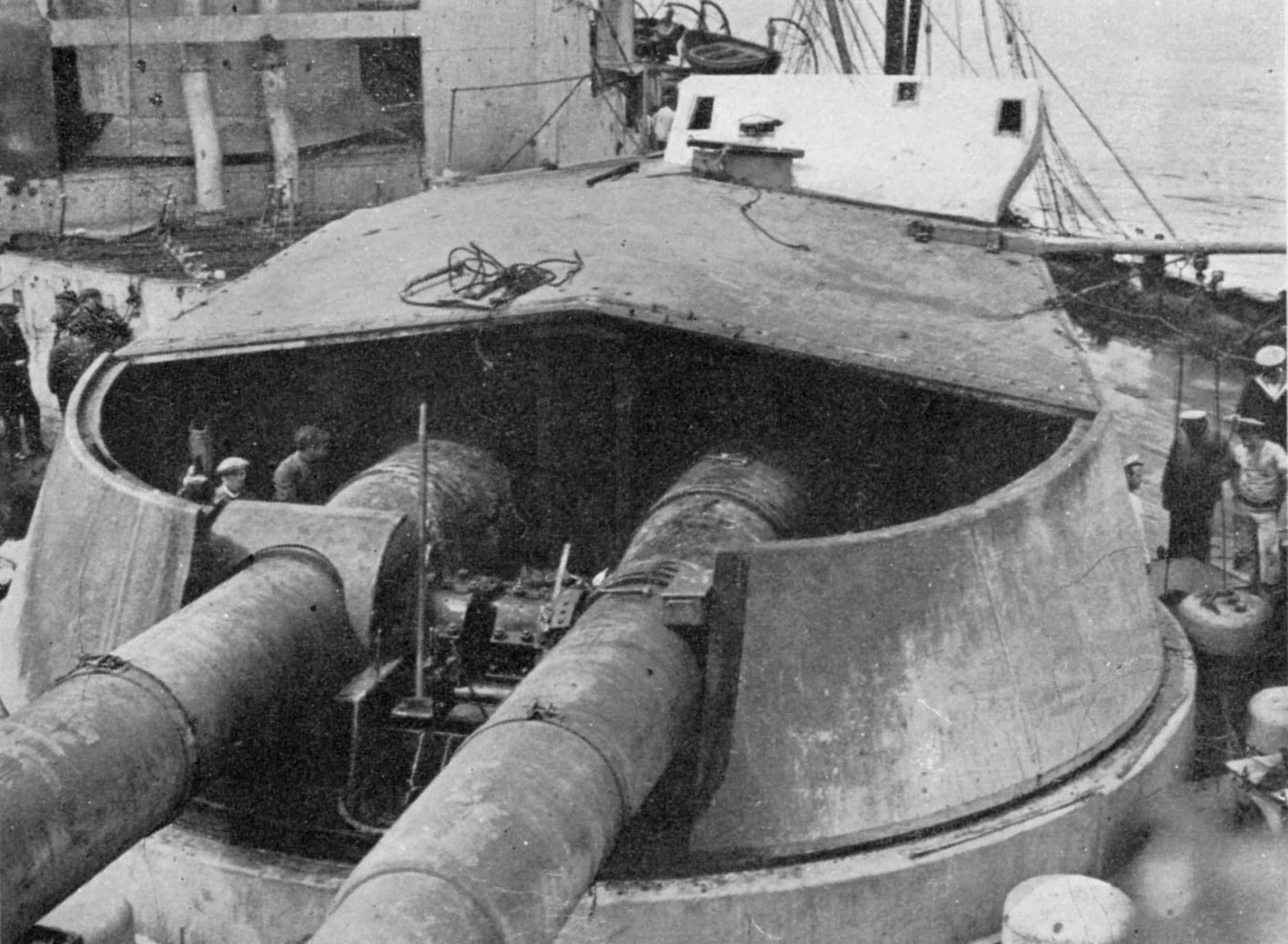 Damage to Q turret of British battlecruiser HMS Lion after the Battle of Jutland. Front armour plate has been removed.